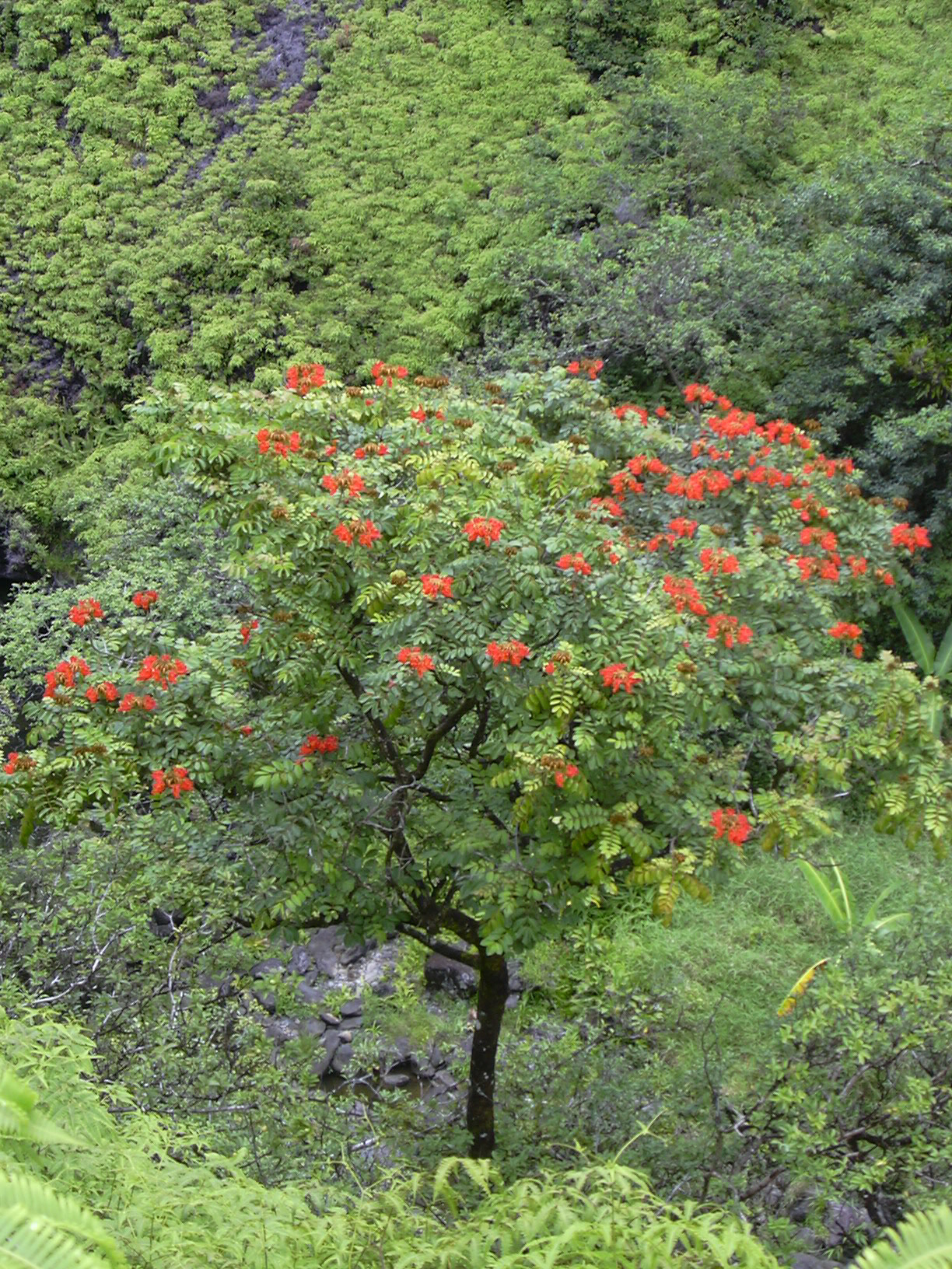 Spathodea campanulata (flowering habit). Location: Maui, Kopiliula